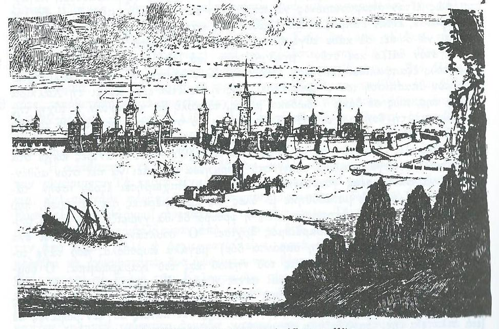 castle of Chalcis (Negroponte) in Euboea